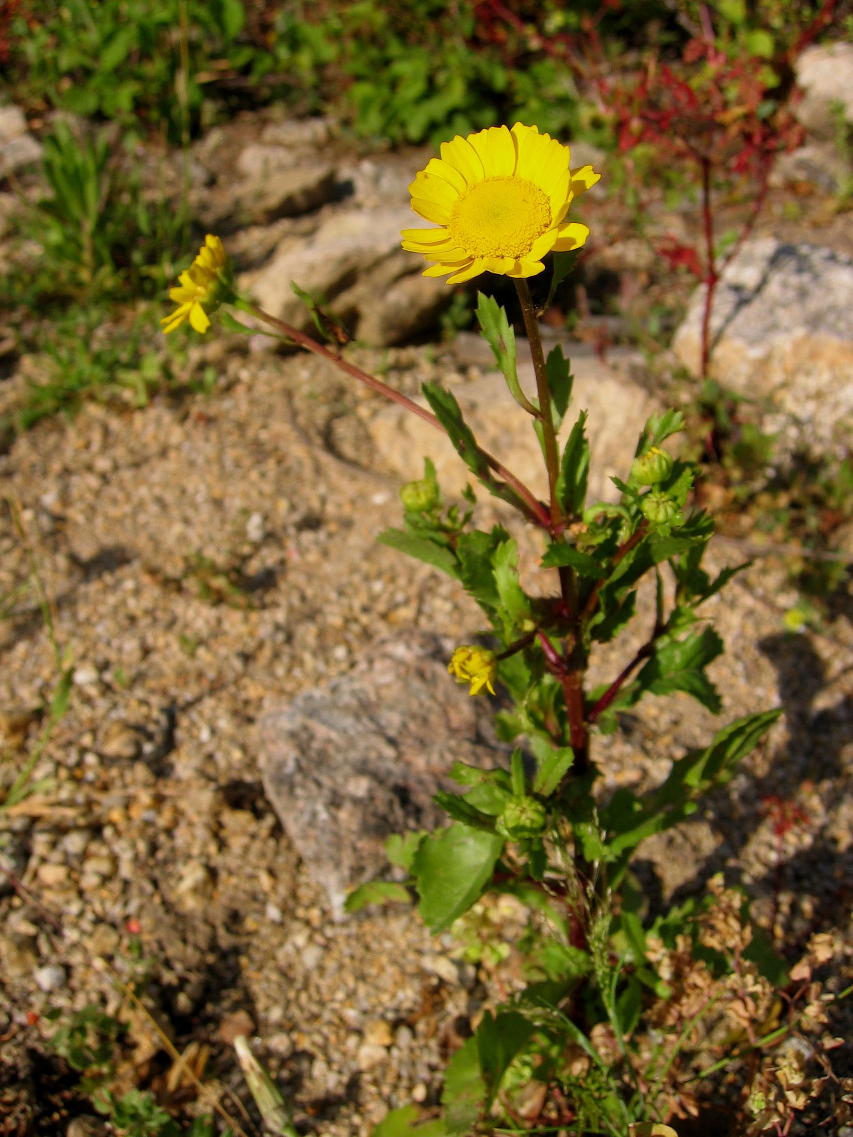 Coleostephus myconis, Calvi, Corse